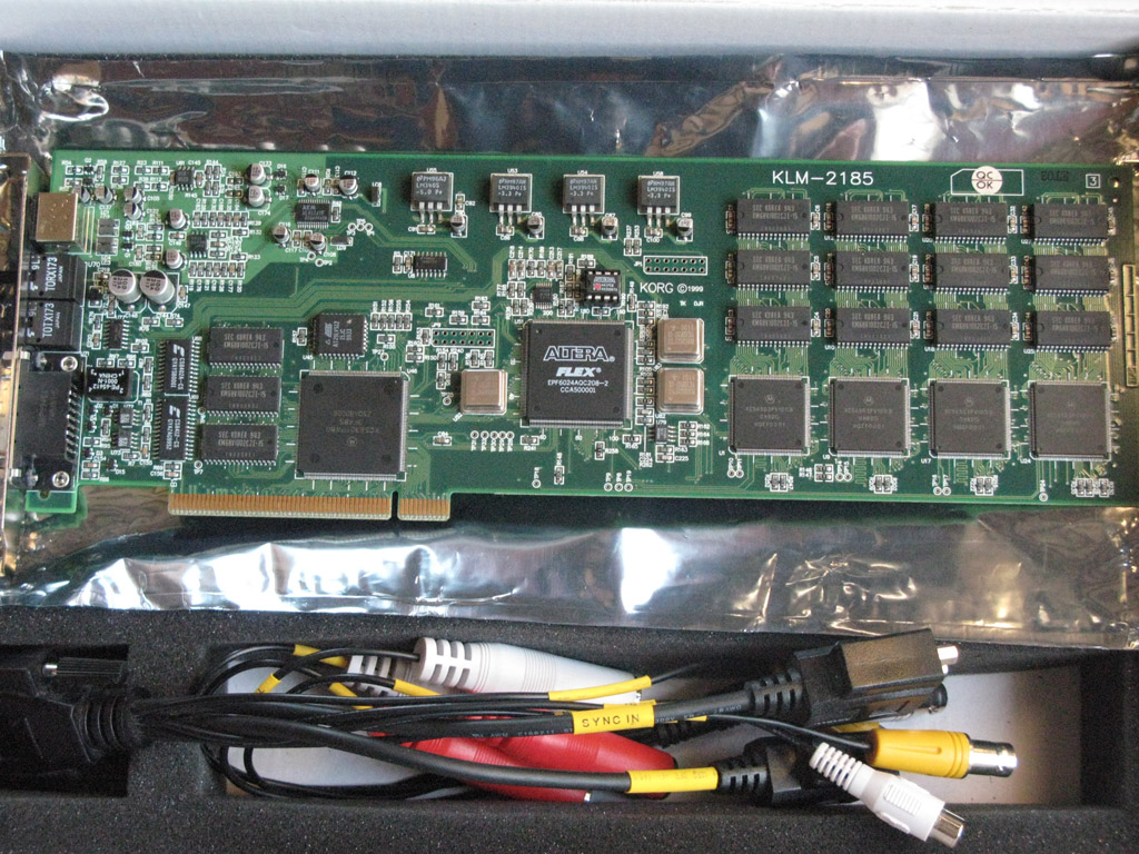 Korg OASYS PCI front view